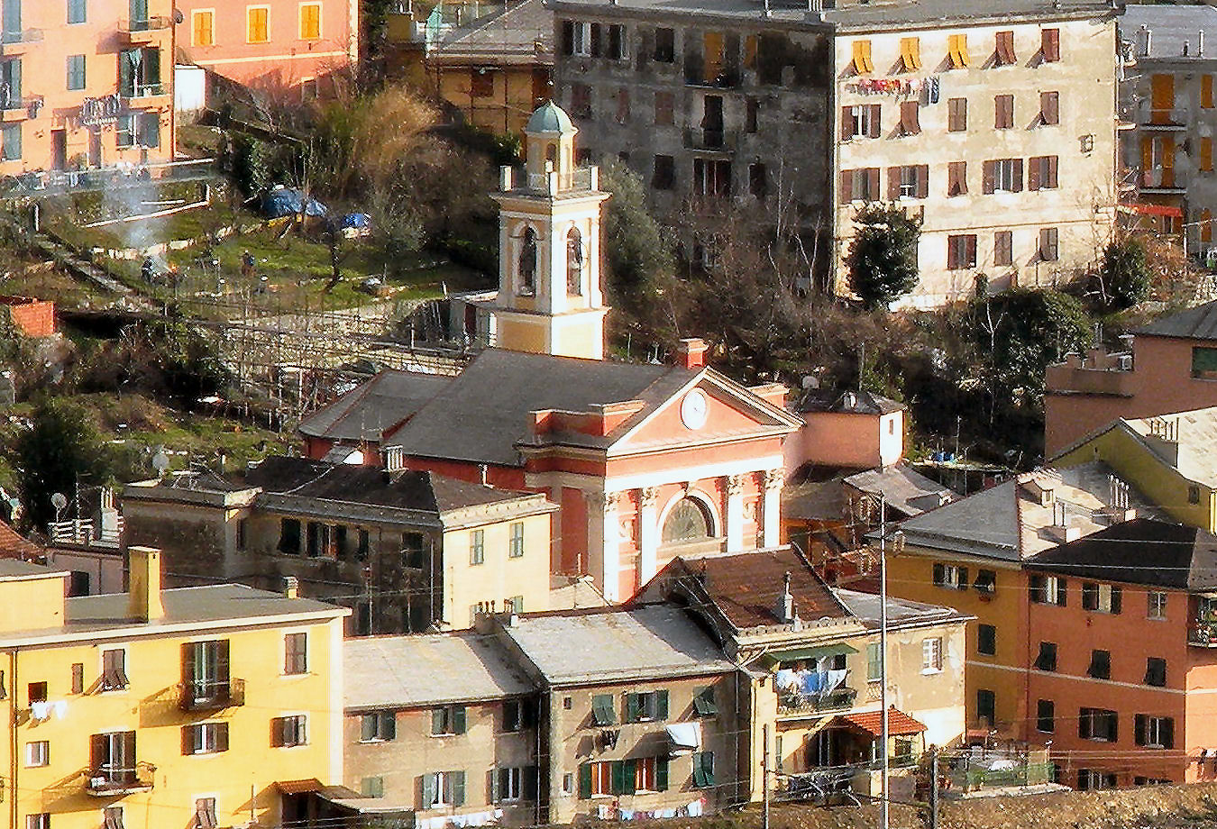 Genoa (Italy), quarter of Rivarolo, the church of St. Ann at Teglia